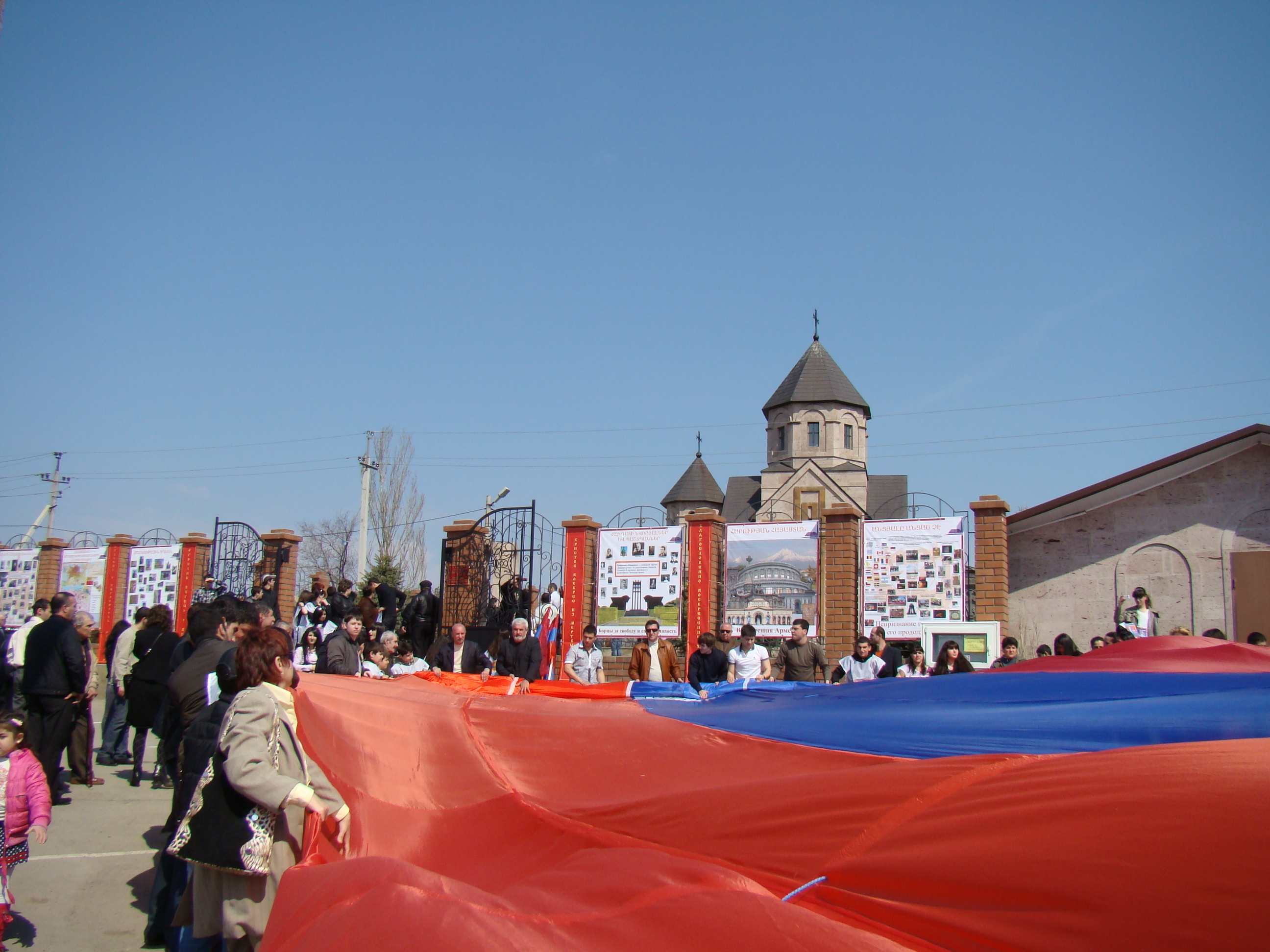 Armenian Genocide Day in Sourb Gevorg armenian Church